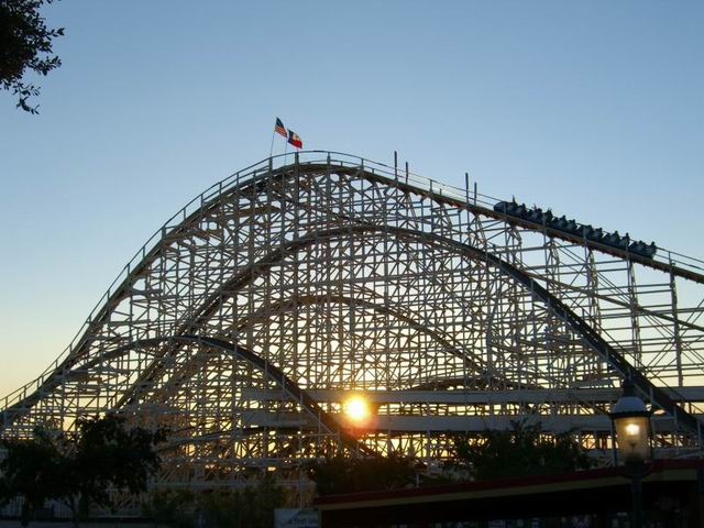 Texas Cyclone at Sunset. Taken 1 day before the closing of Astroworld forever.